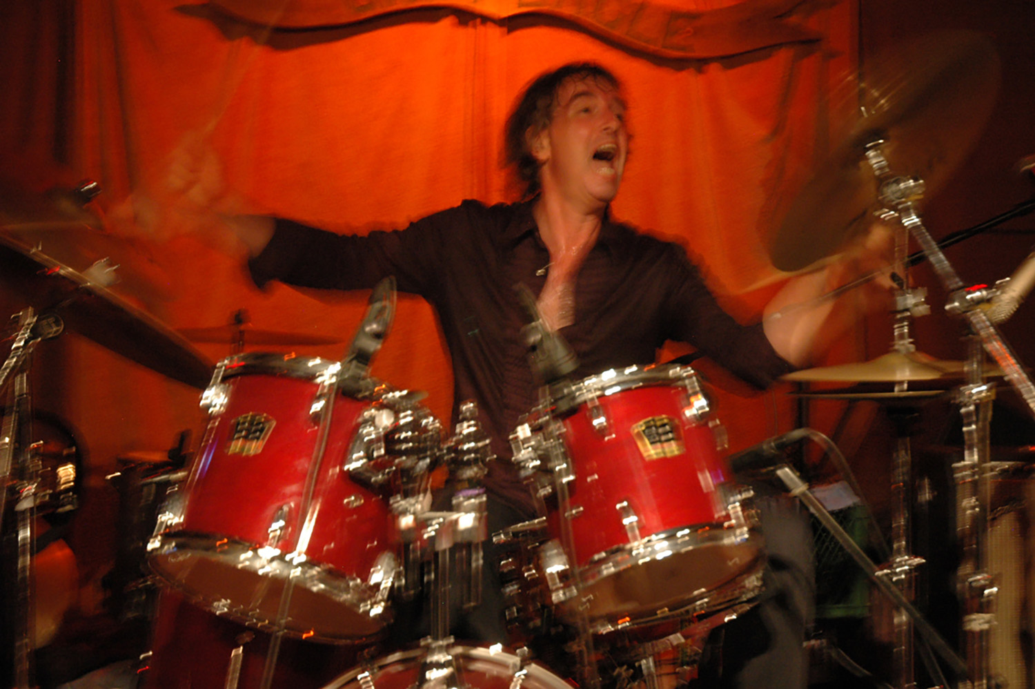 Jonathan Kane plays the drums at the Transfiguration Festival in Asheville, NC in 2009.